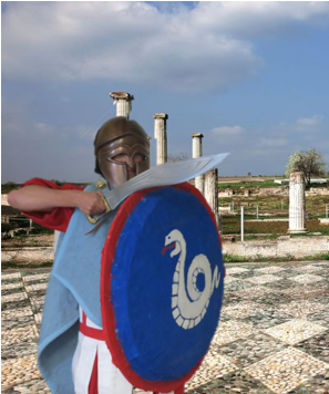 Greek hoplite carrying a kopis and an aspis